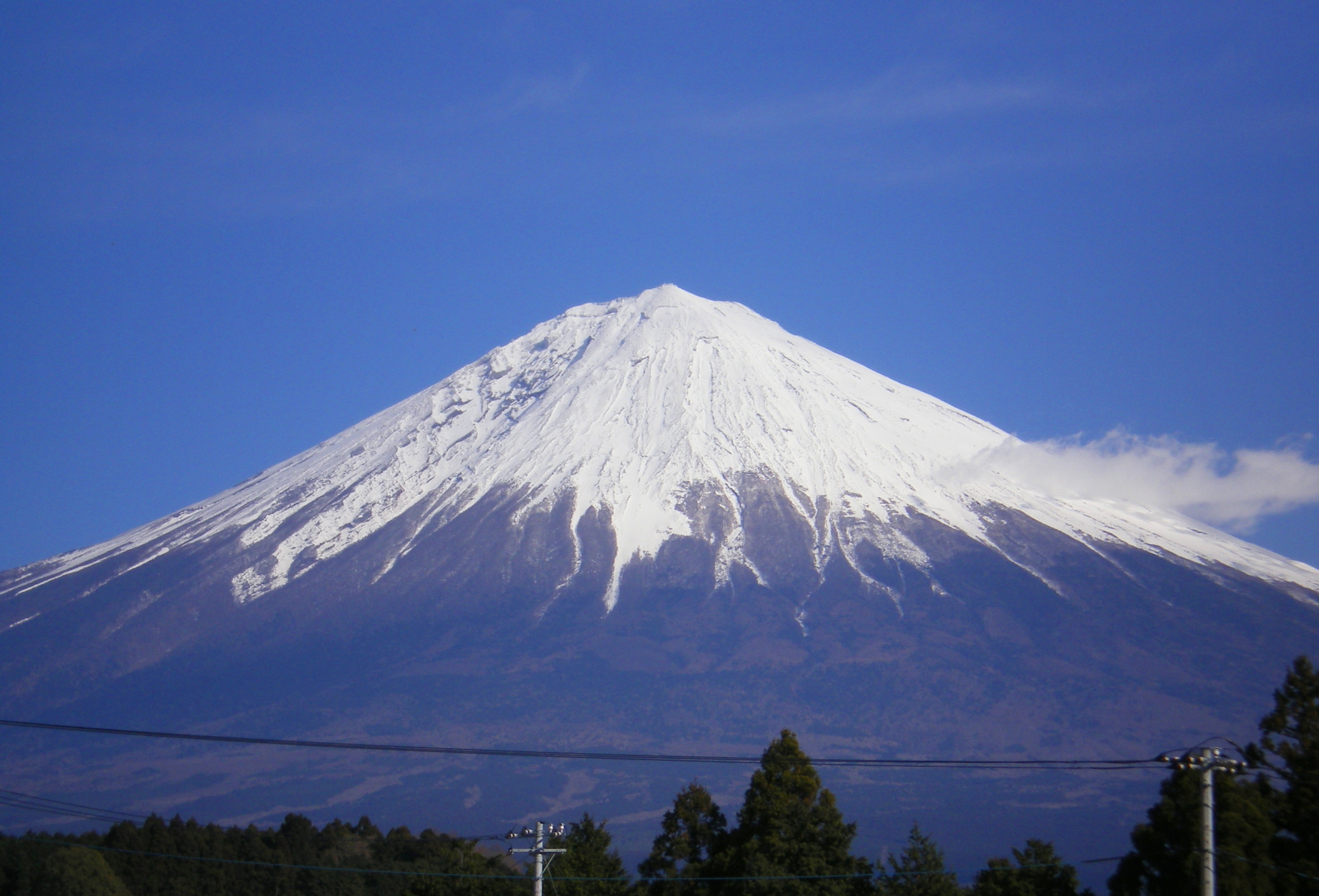 Mount Fuji from Precinct of Taiseki-ji.